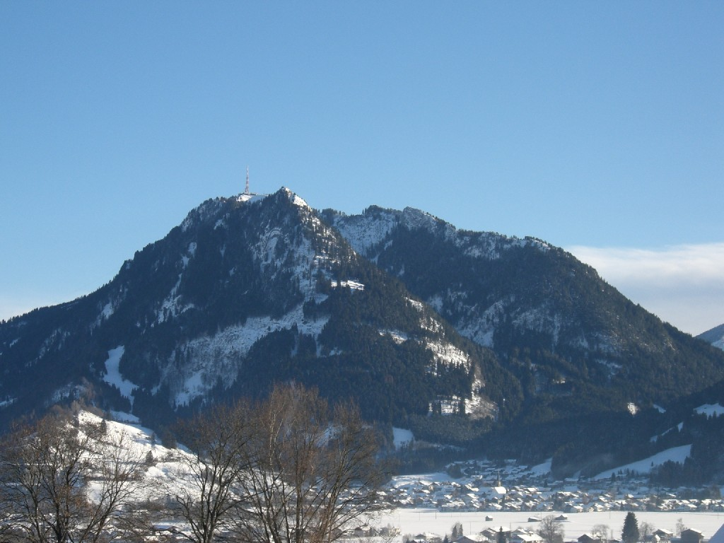 view on Gruenten from Southwest